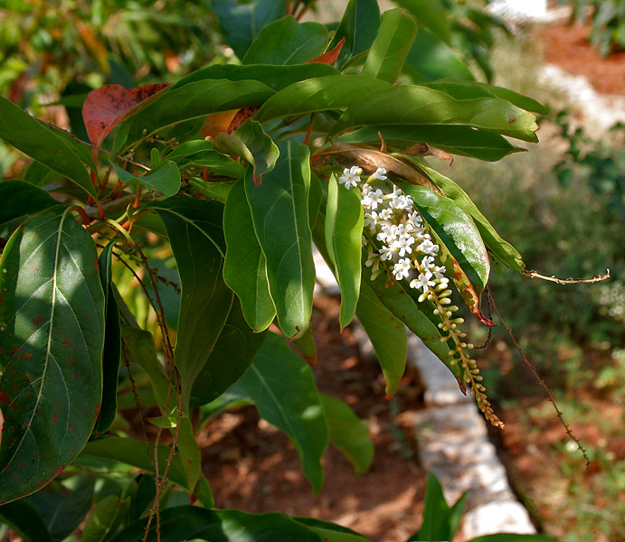 Citharexylum spinosum (Syn. Citharexylum fruticosum L.; Citharexylum quadrangulare, Citharexylum fruticosum L. forma subserratum (Sw.) Moldenke, Citharexylum subserratum Sw.)- Fiddlewood, Fiddlewood Tree, Spiny Fiddlewood - in Herbal Garden, in Rangareddy district of Andhra Pradesh, India.